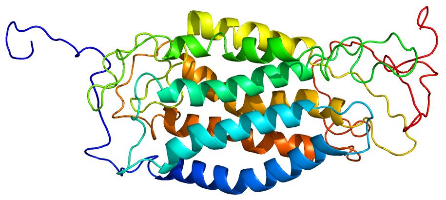 Structure of protein CCR5.Based on PyMOL rendering of PDB 1ND8.